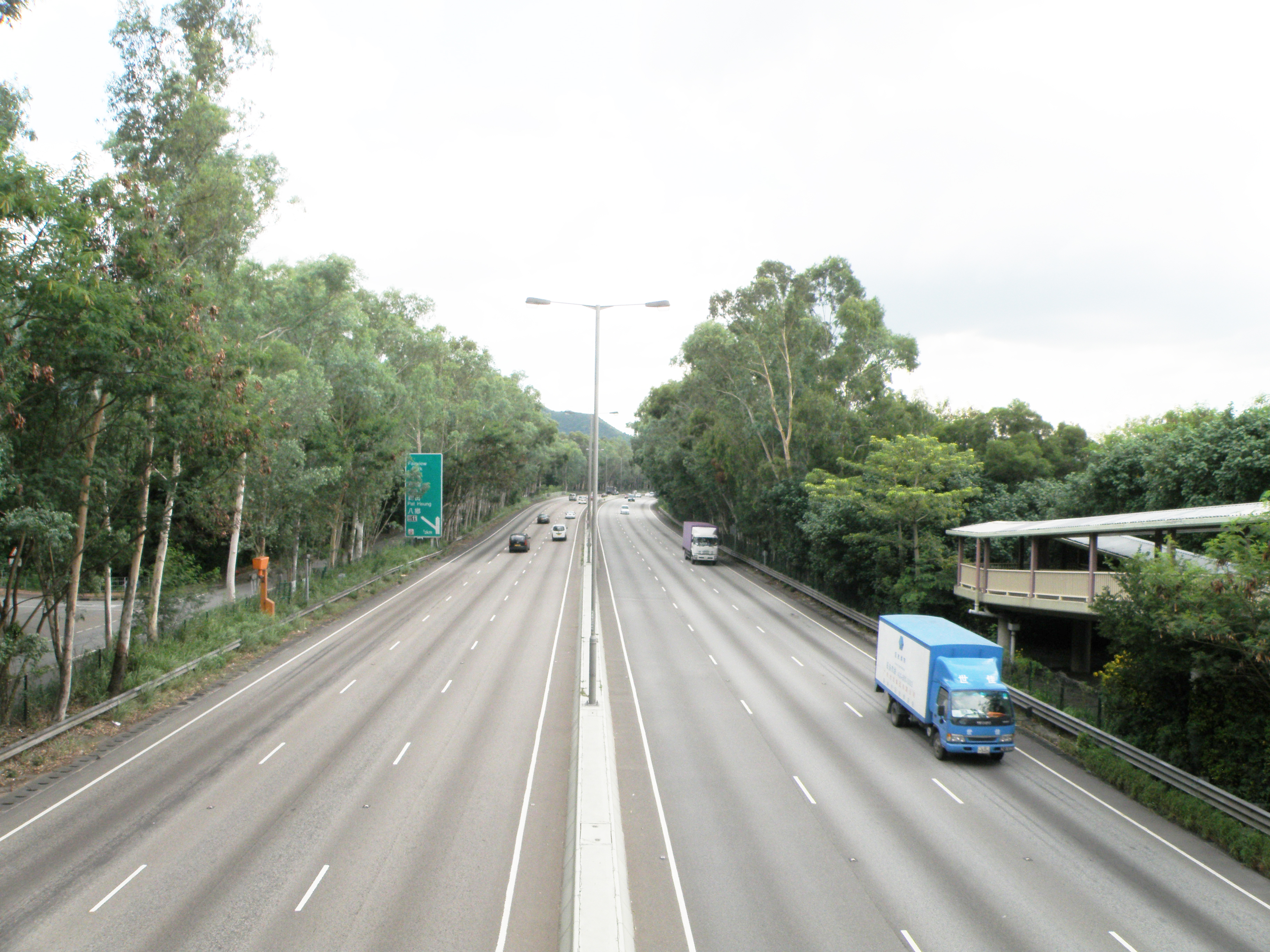 San Tin Highway in Ngau Tam Mei, Hong Kong.